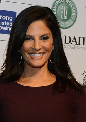 The Second Annual Daily News Hometown Heroes in Transit Awards at the Edison Ballroom on Wed., January 29, 2014 recognized 15 exemplary MTA New York City Transit employees. Darlene Rodriguez presents award to Johnny Goings. Photo: Marc A. Hermann / MTA New York City Transit